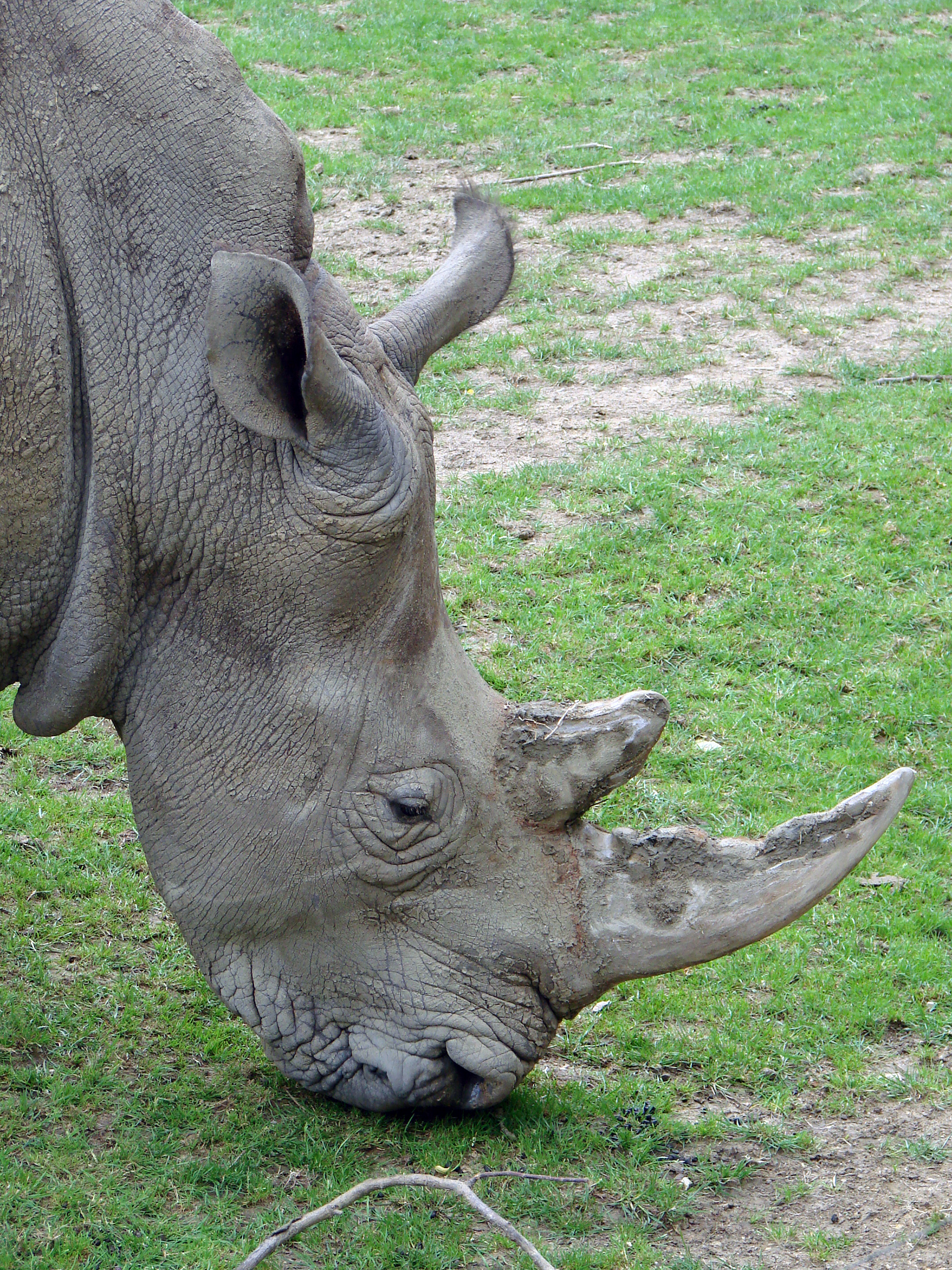 Southern white rhinoceros (Ceratotherium simum simum). ZooParc de Beauval,Loir-et-Cher,France.